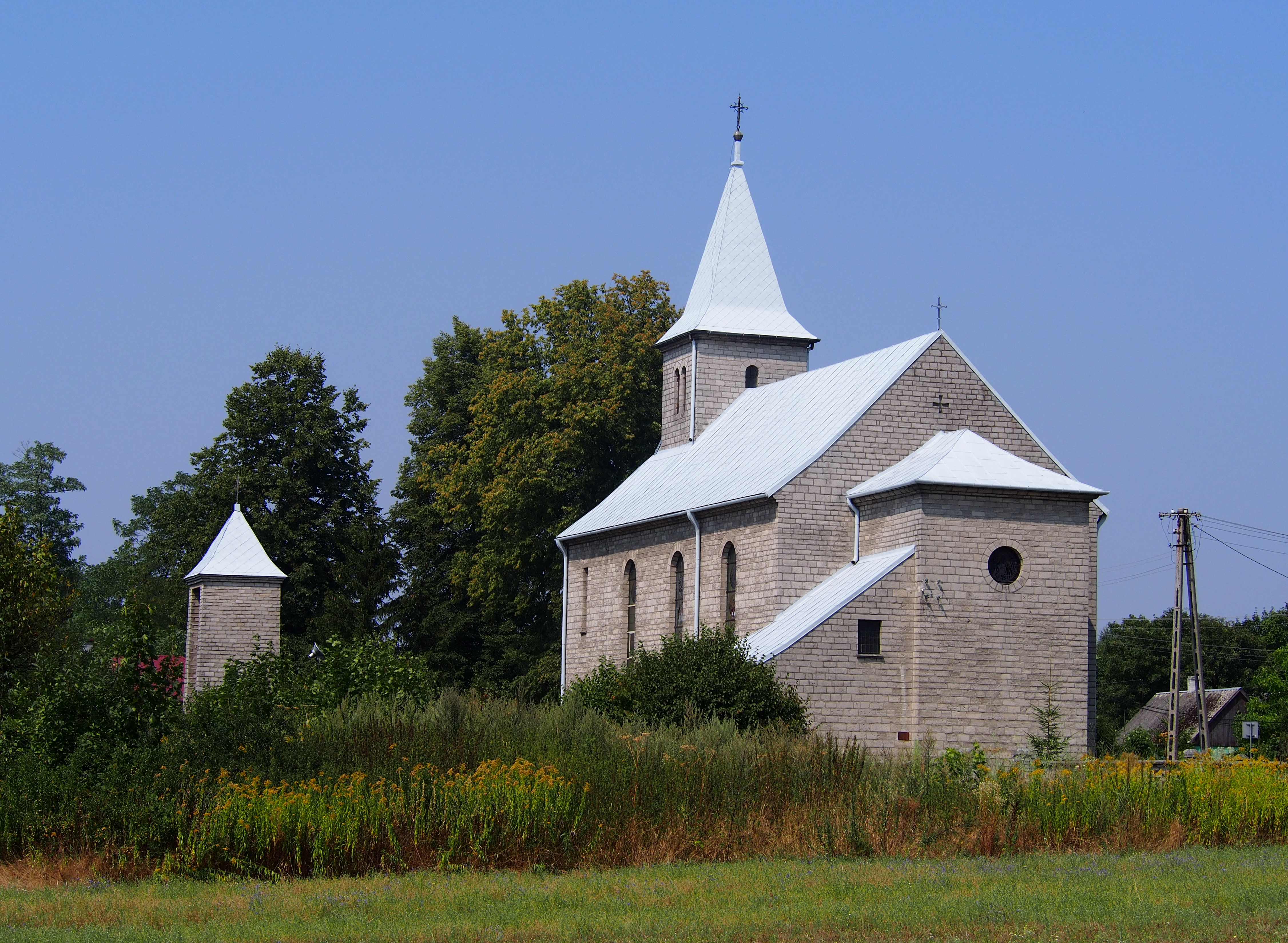 Saint Andrew Bobola church in Niemirów, Świętokrzyskie Voivodeship, Poland.